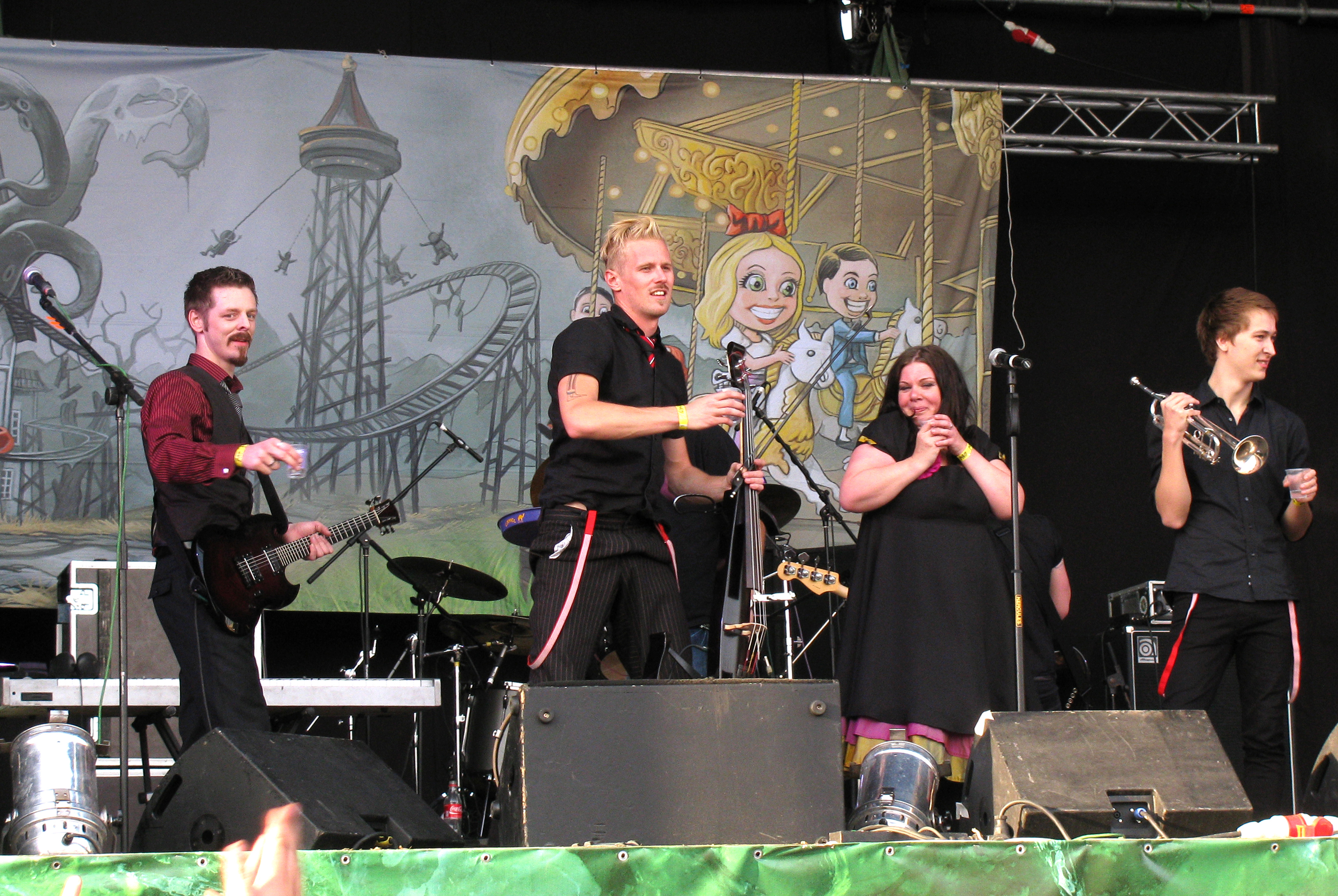 Diablo Swing Orchestra playing at Global East Rock Festival 2010